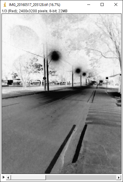 Imagem com escala cinza invertida. Foto da avenida principal da UFLA. Fonte: Próprio autor